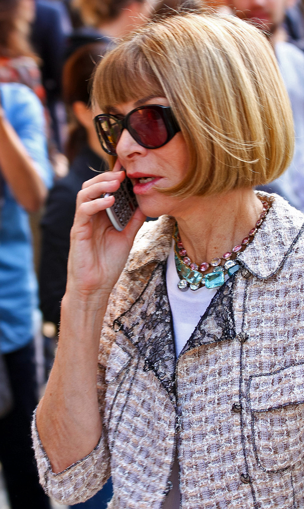 Milan Fashion Week 2013, photos from Giorgio Armani Fashion show